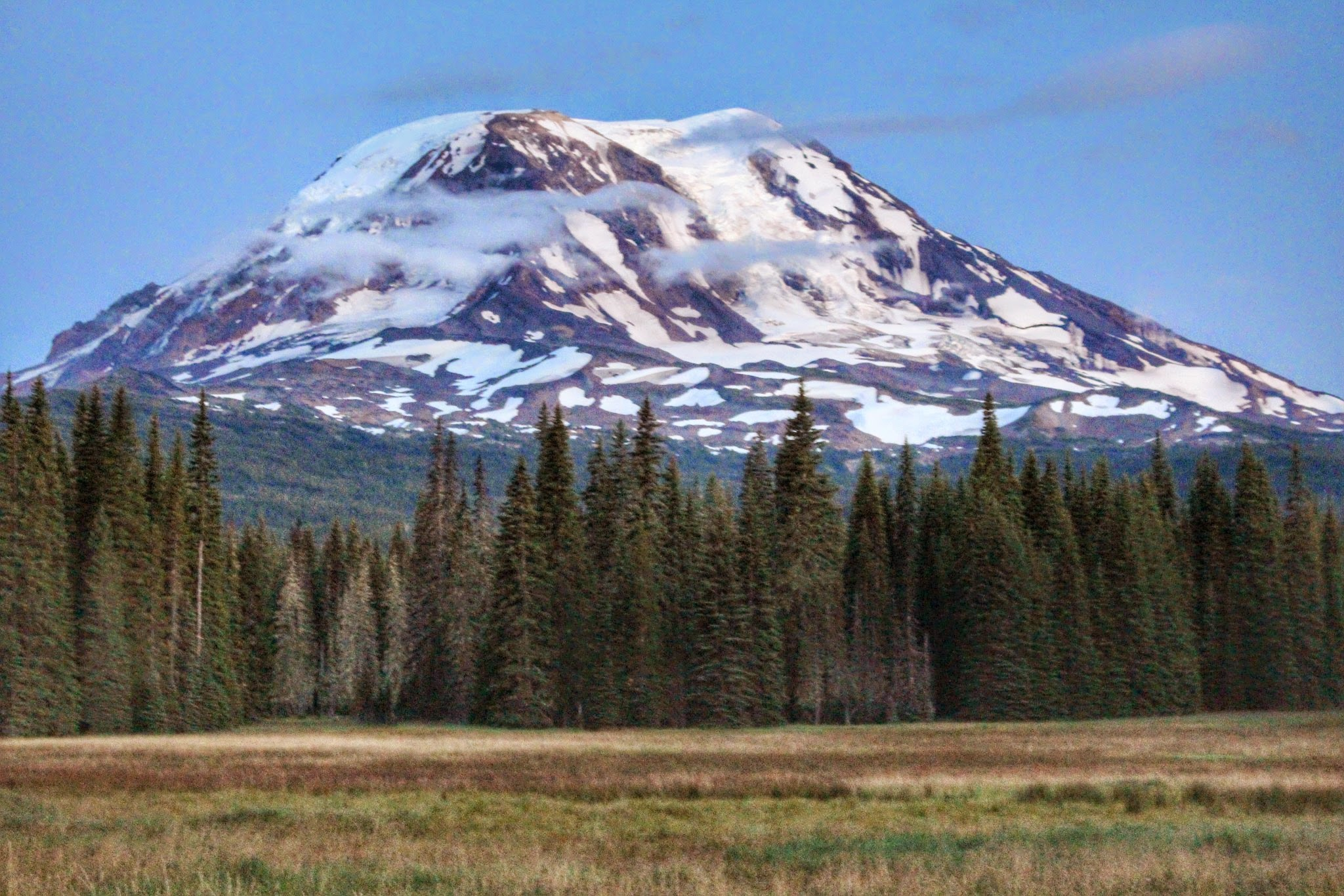 This is the north-northwest side of Mount Adams. The Adams Glacier is seen flowing down the right side of the mountain.